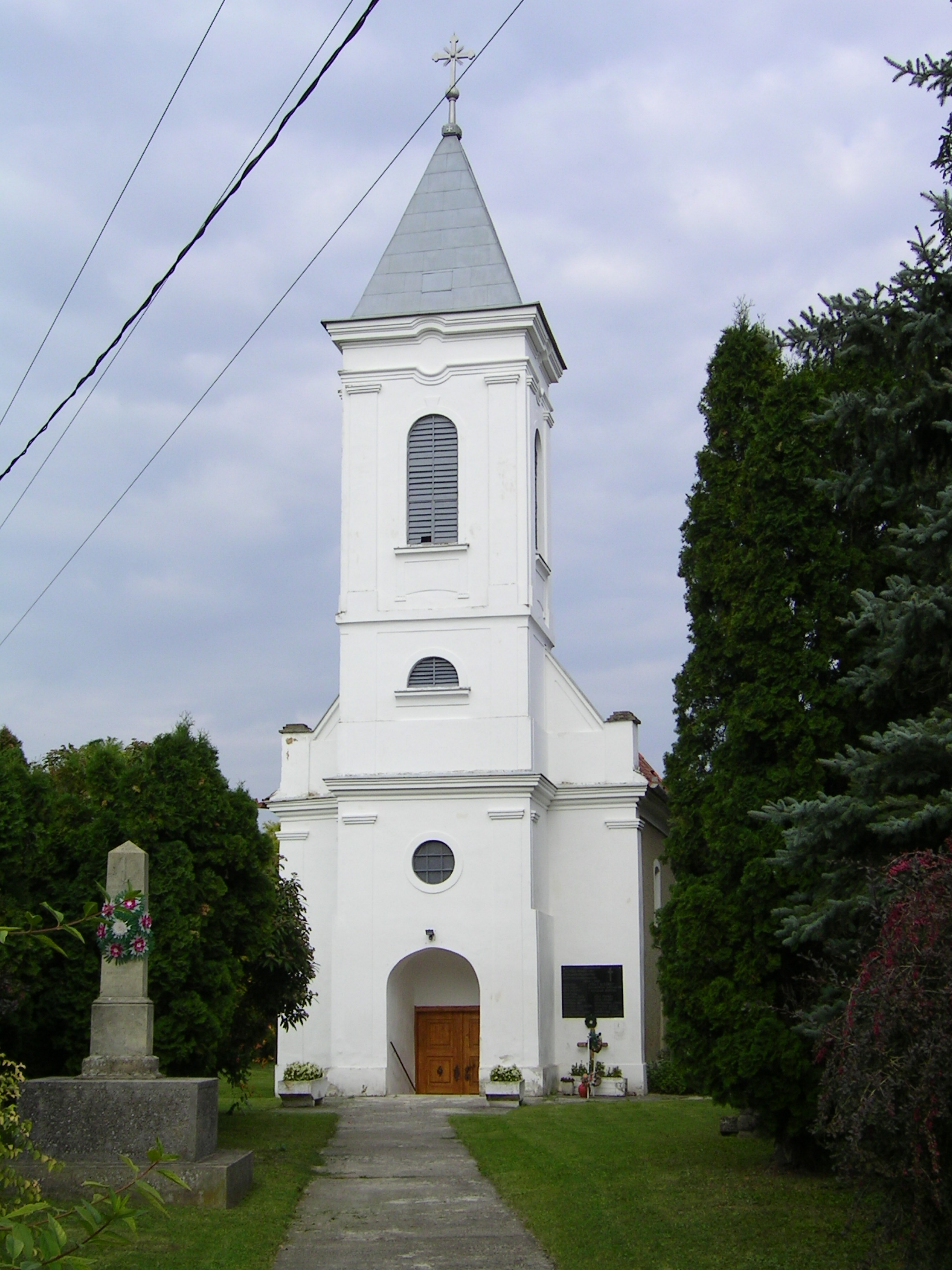 Roman catholic church in Pécsdevecser, Hungary